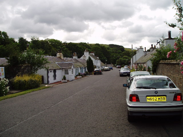 Eddleston